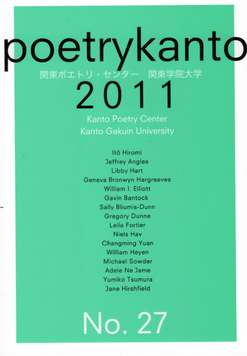 Poetry Kanto, 2011 issue, cover